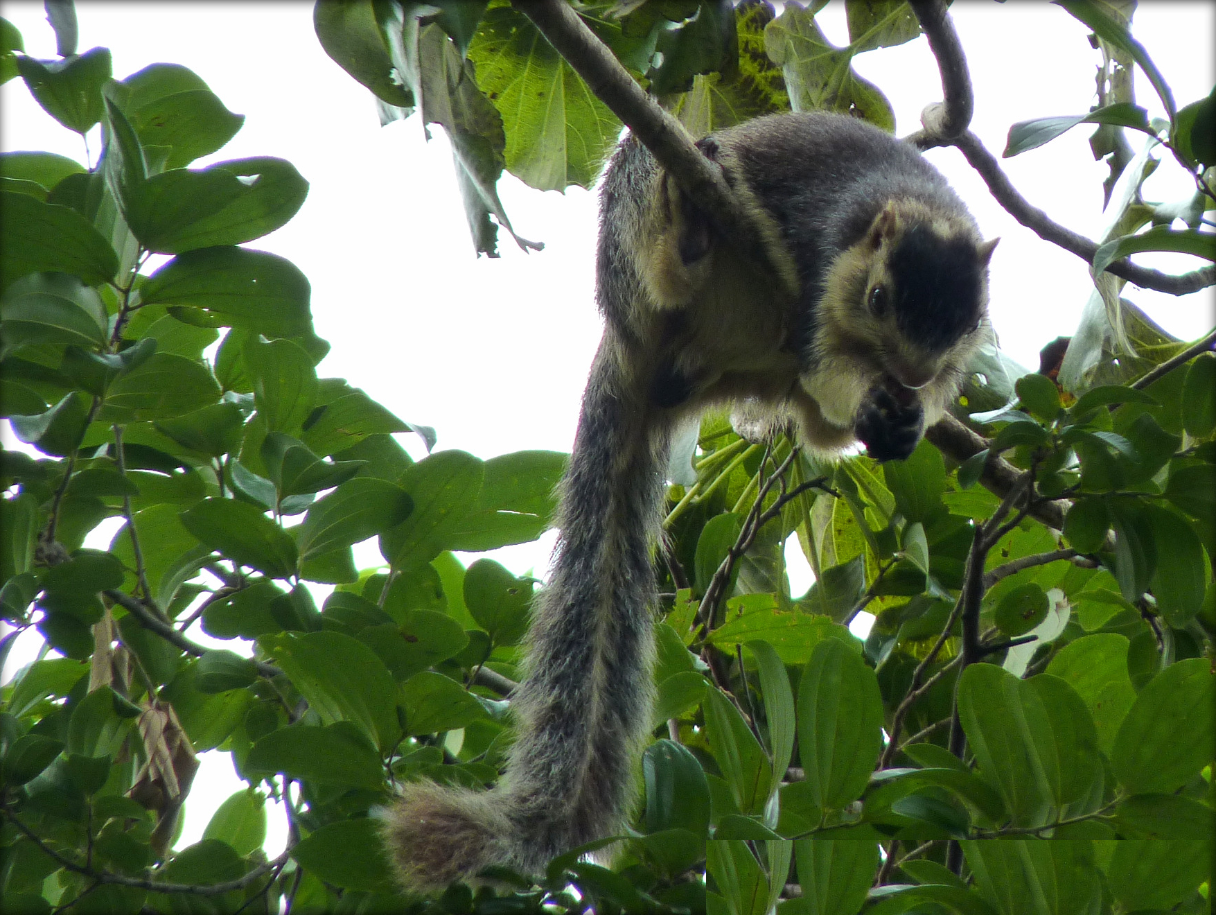 This is a Grizzled giant squirrel taken at Cauvery WLS